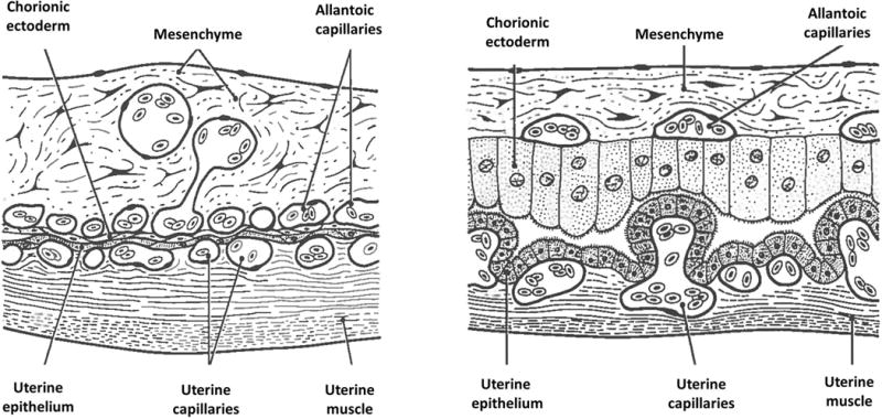 A, Drawing from a section of the mature chorio-allantoic placenta of the Australian skink Egernia cunninghami carrying developing young, showing the maternal capillaries closely adjoining the allantoic capillaries on the fetal side. B, Drawing from a section of the immature chorio-allantoic placenta of the Australian skink Egernia entrecasteaux. The section illustrates the folded placental face likely involved in releasing histotrophic material that can be taken up by the chorionic ectoderm. Note also the close apposition of maternal blood capillaries with the epithelium of the reproductive tract.